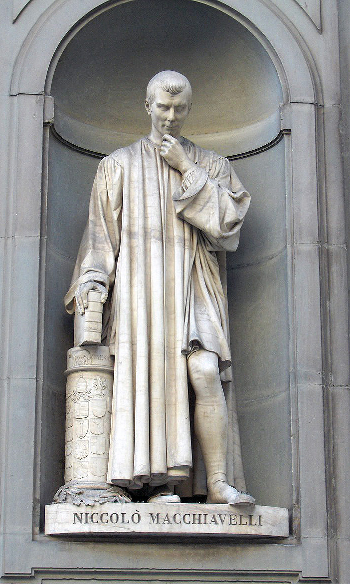 Niccolò Machiavelli (3 May 1469 – 21 June 1527) was a Florentine statesman, political philosopher, historian, musician, poet, and comedic playwright. Statue by Lorenzo Bartolini outside the Uffizi, Florence.